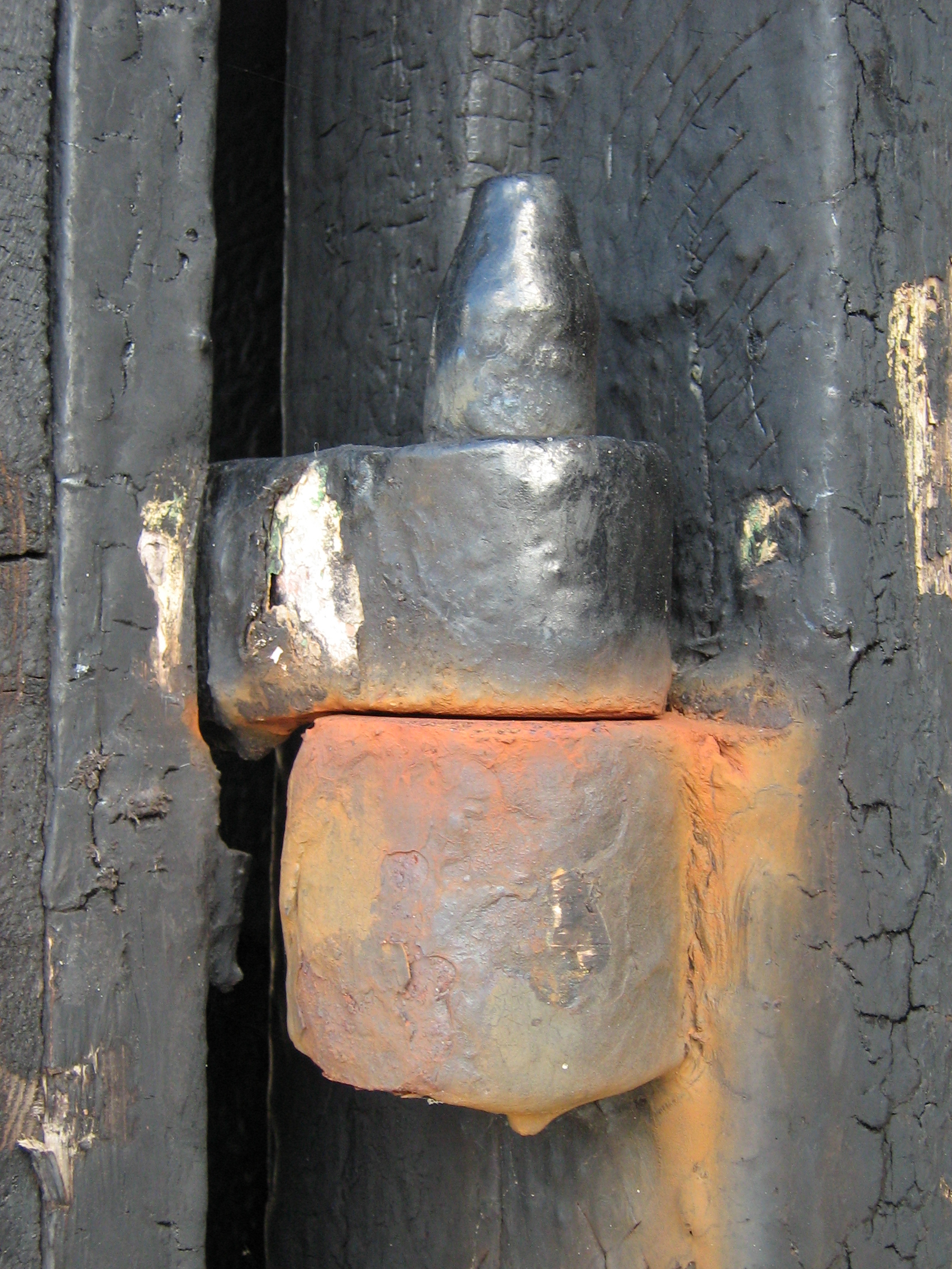 Hinge of the door of a old barn in the Netherlands.